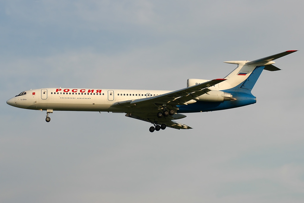 Formally called Tu-154M-100 due to new avionics, new engines series, etc